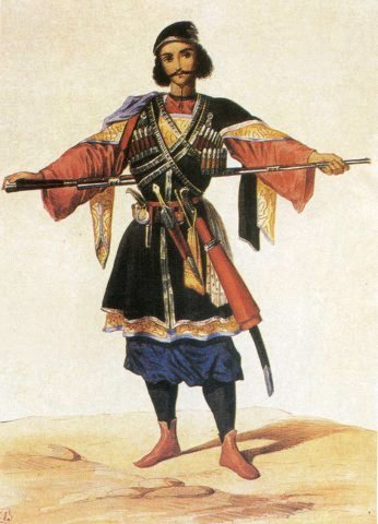 Grigory Gagarin (1810—1893). A Georgian prince from Imeretia